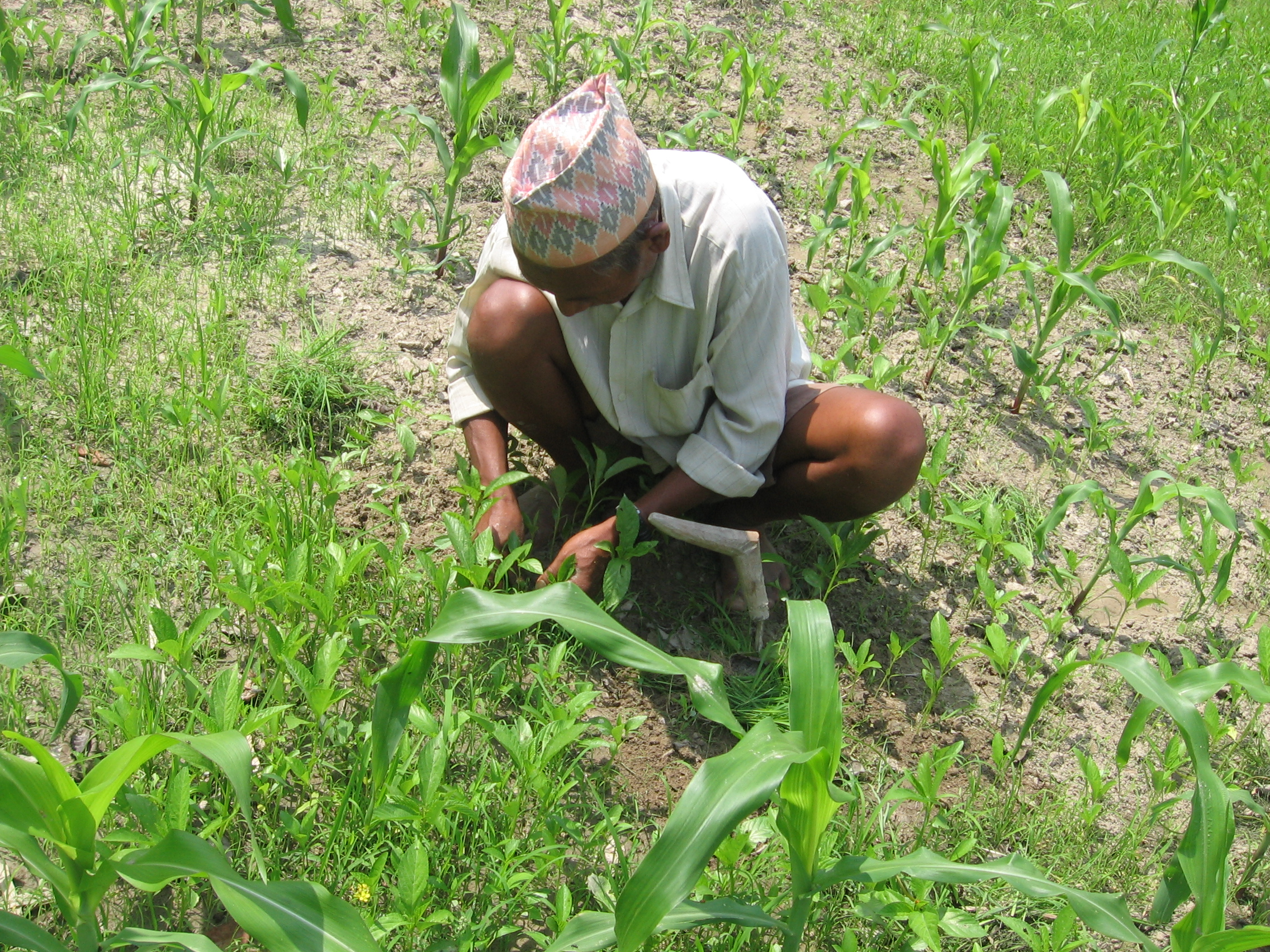 Dhan Raj Tamang, Farmer working on his field